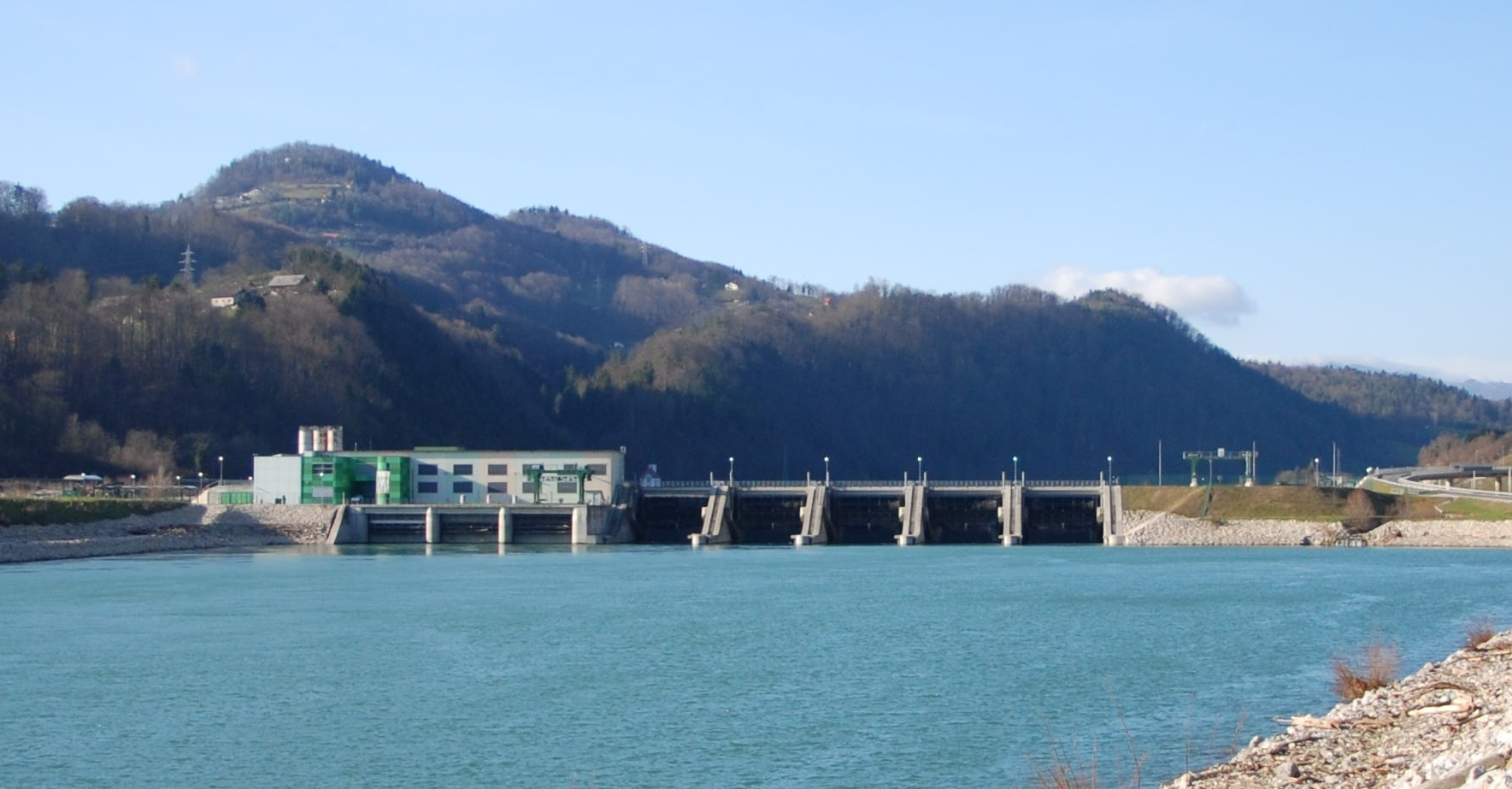 Boštanj Hydroelectric Power Plant, photographed from Sevnica.